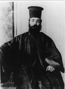 Mihail Anagnostakos as hegumen of the Oshin monastery